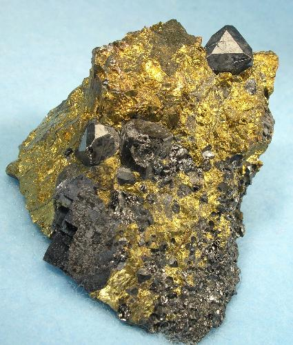 Magnetite, Chalcopyrite, Galena Locality: Aggeneys, Northern Cape Province, South Africa (Locality at ) Size: 4.5 x 4 x 3.5 cm. An outstanding combination piece of Magnetite, Chalcopyrite, and Galena, all with superb metallic luster from this little known locality. While the Chalcopyrite is crudely crystallized and the sharp cubic Galena was probably cleaved during mining, the Magnetites, particularly the main crystal on top, are superb. This .7 cm on edge Magnetite is a classic octahedron with the edges strongly modified by the dodecahedron, creating beautiful beveled edges and perfect triangular faces. Ex. Charlie Key.